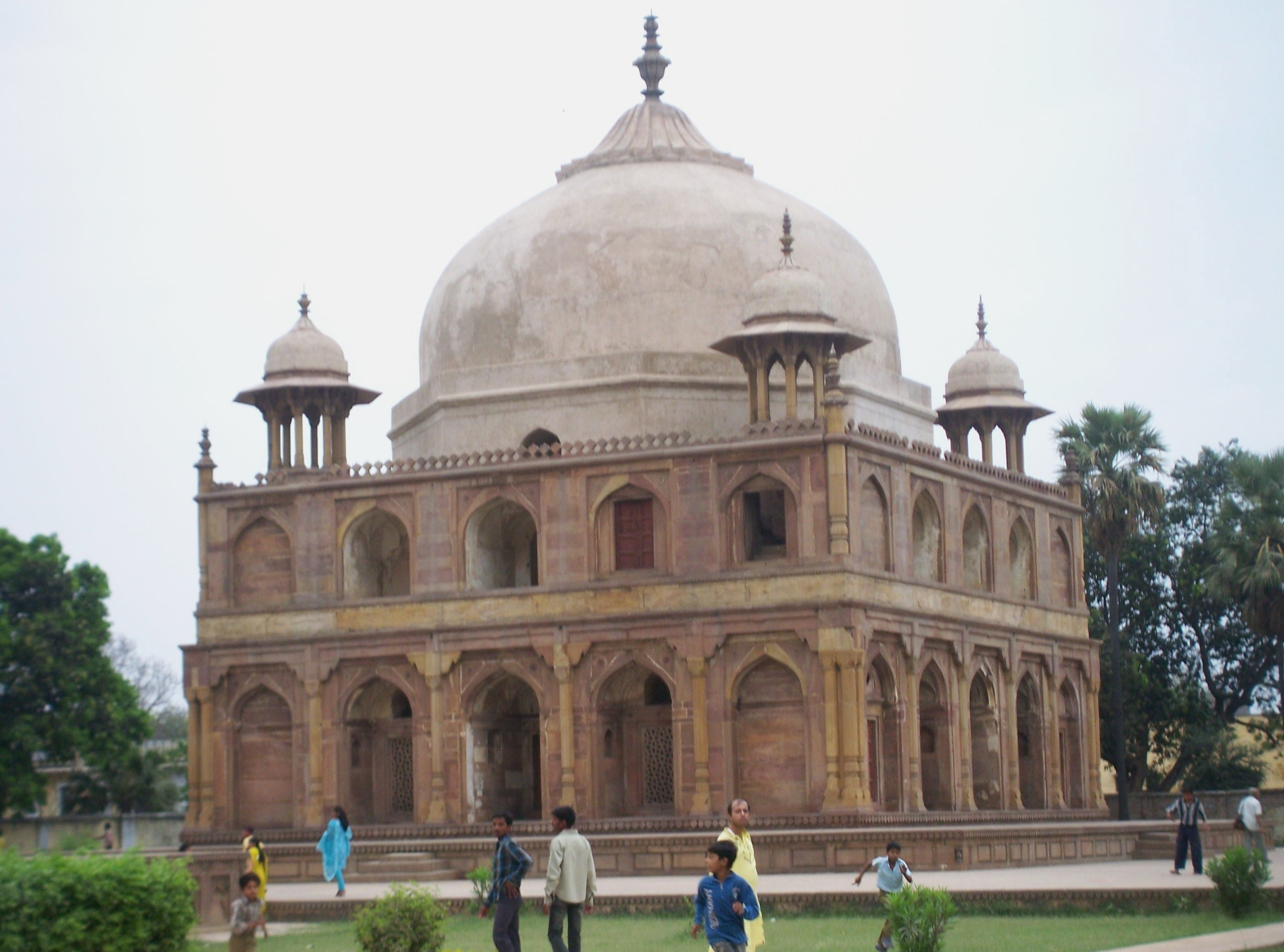 Image of the tomb of Khusrau Mirza